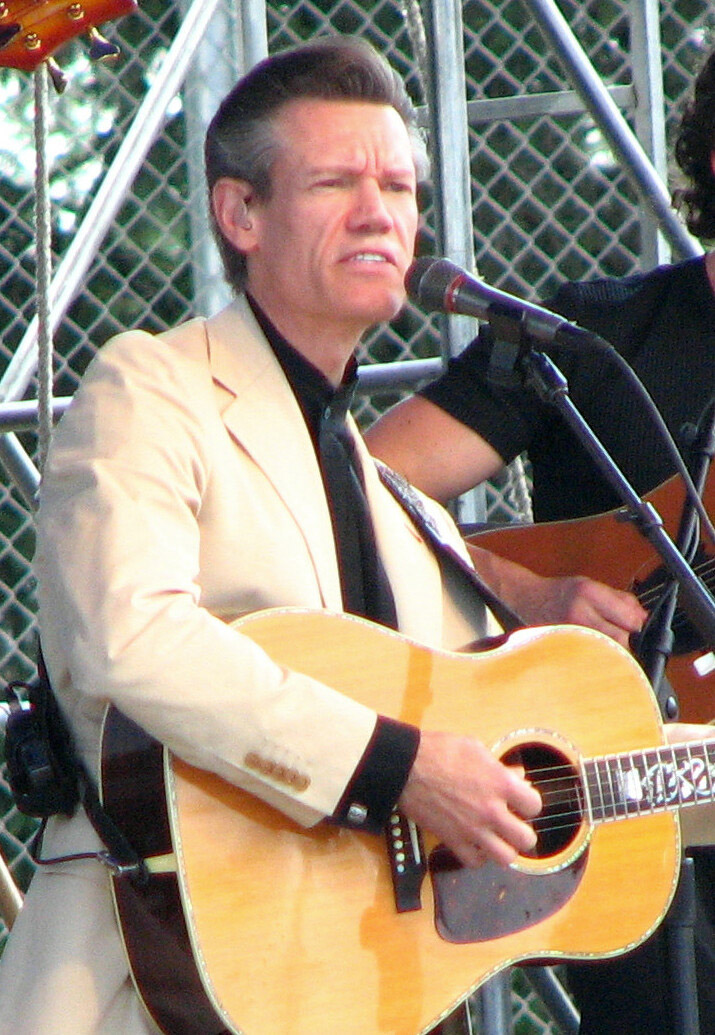 Randy Travis performing live in Bolingbrook, Illinois, July 4, 2007